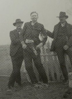 The corpse of outlaw John Shaw being held up by cowboys from the Aztec Land and Cattle Company on April 10, 1905 at Canyon Diablo, Arizona Territory.